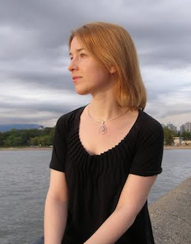 Jordan Hall in 2010